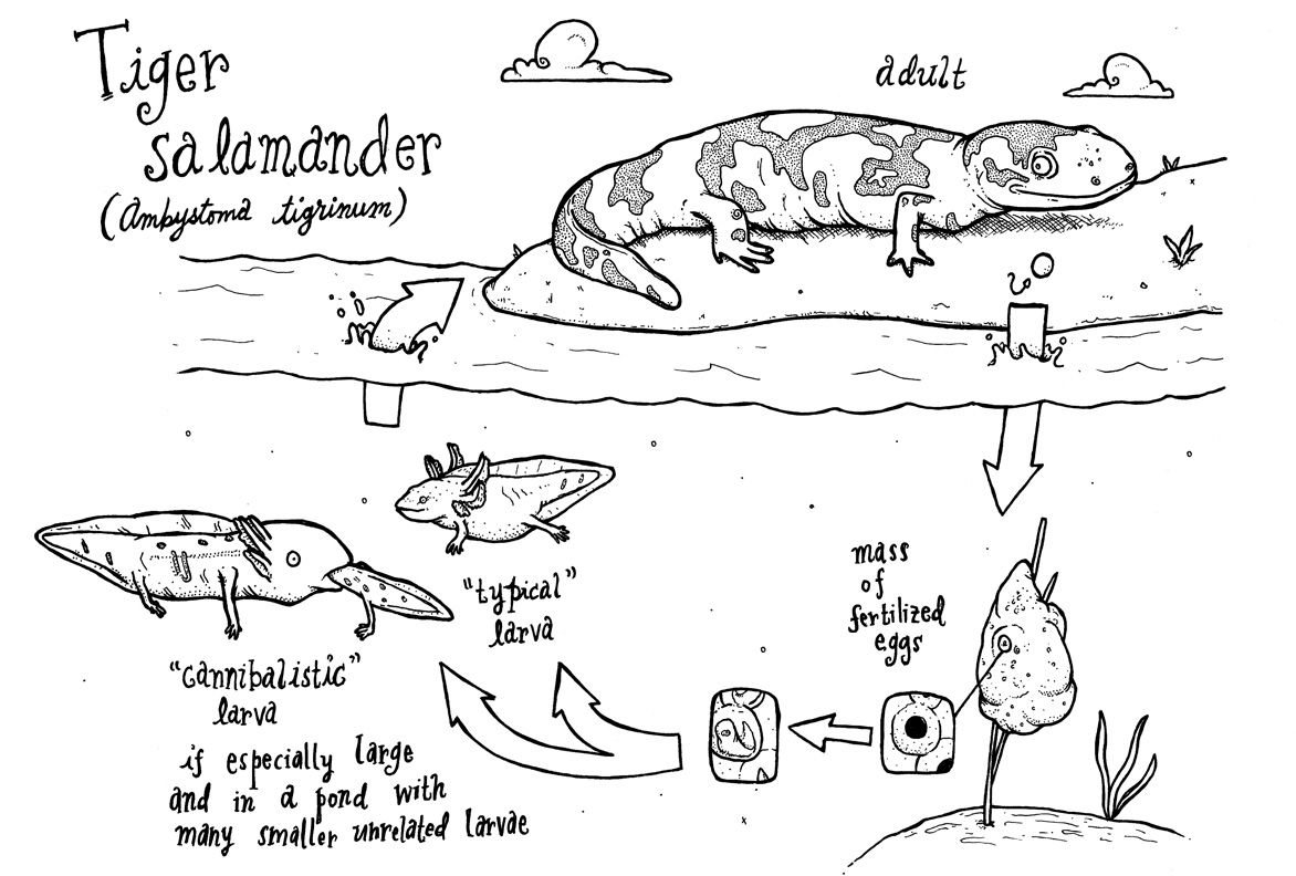 Tiger salamander (Ambystoma tigrinum) life cycle